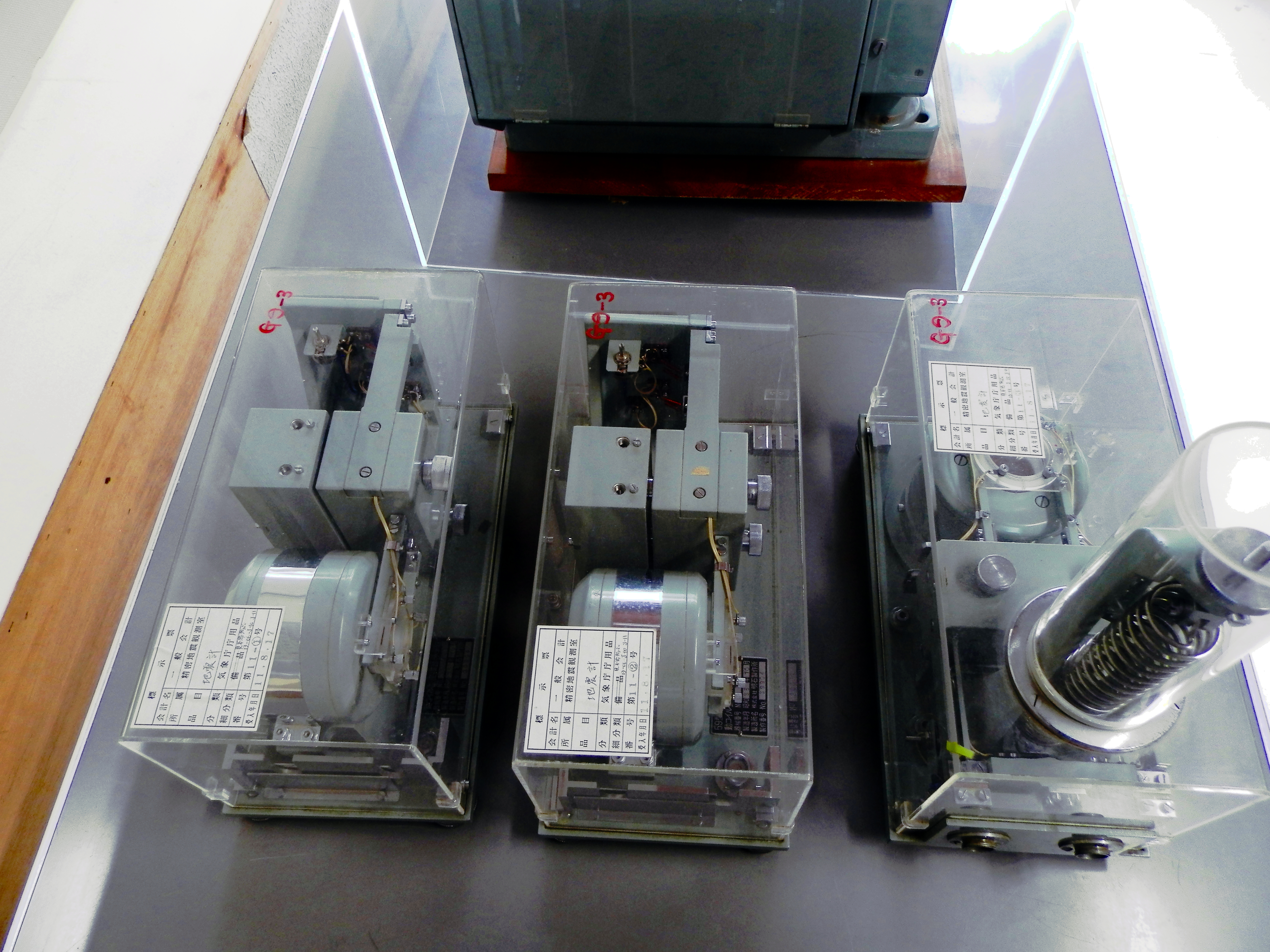 Japan Meteorological Agency 59 Formula optical electromagnetic seismometer